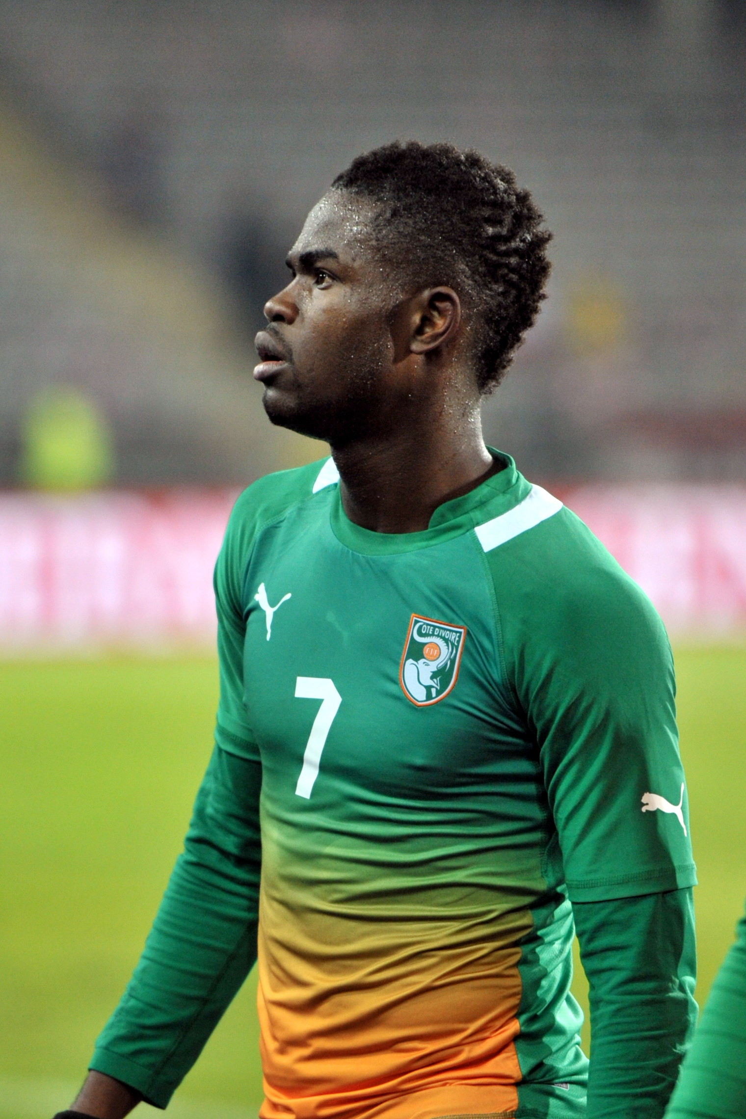 ÖFB freundschaftliches Länderspiel - Österreich vs Elfenbeinküste am 14. November 2012 The making of this work was supported by Wikimedia Austria. For other files made with the support of Wikimedia Austria, please see the category Supported by Wikimedia Österreich. Elfenbeinküste Nr. 7: Abdul Razak